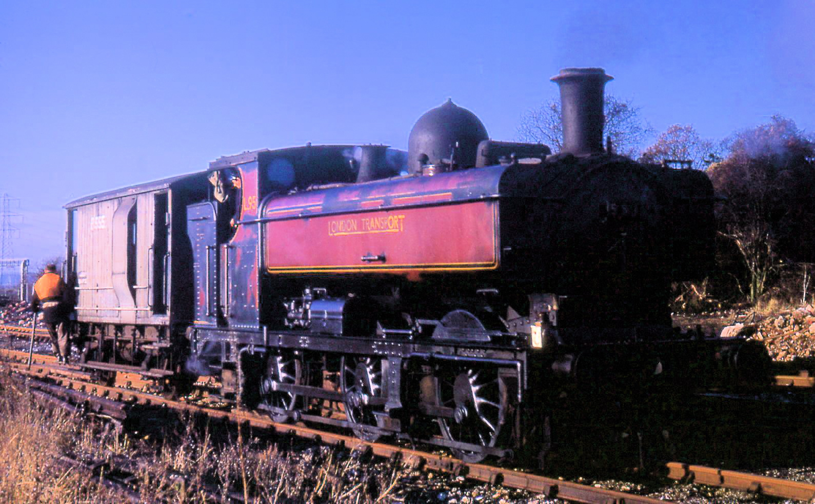 One of London's last steam workings, the weekday morning Neasden-Croxley Tip rubbish train. Ex-GWR 5700 class, London Transport No. L95 shunts at Croxley, 1969.